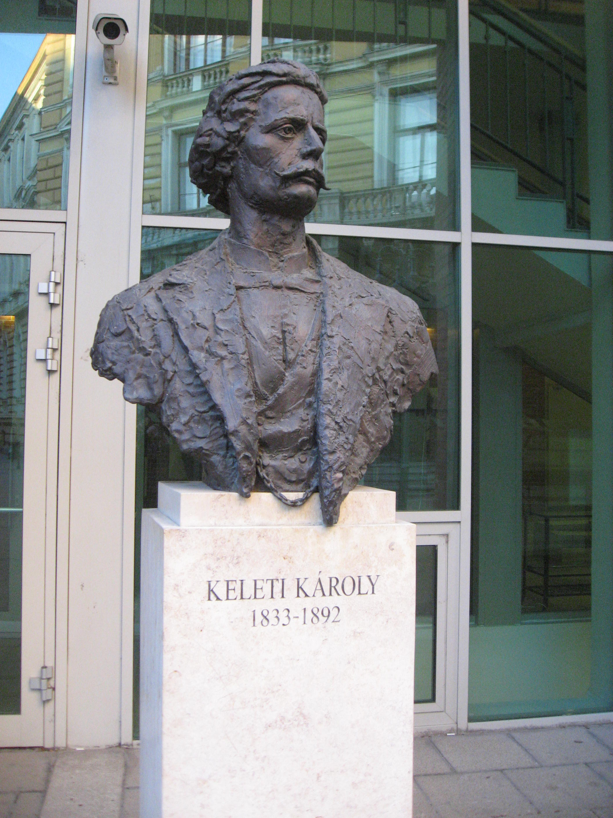 Károly Keleti statue in Budapest